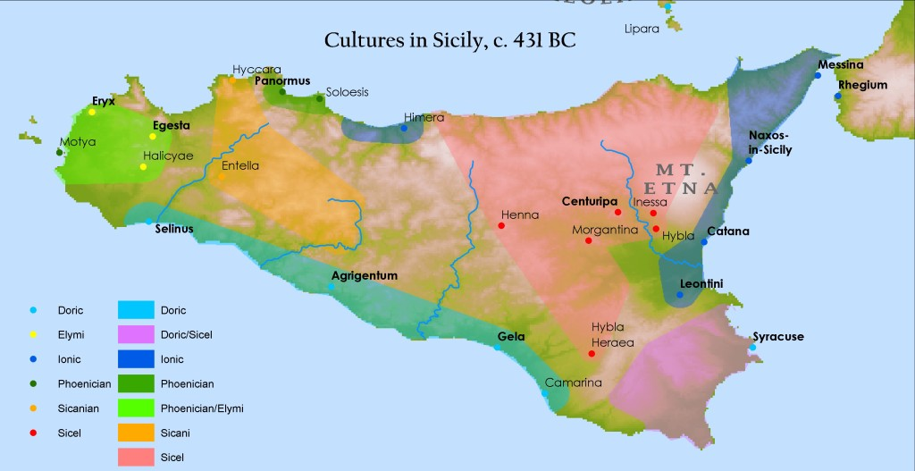 Show who occupied different parts of Sicily at the beginning of the Peloponnesian War.